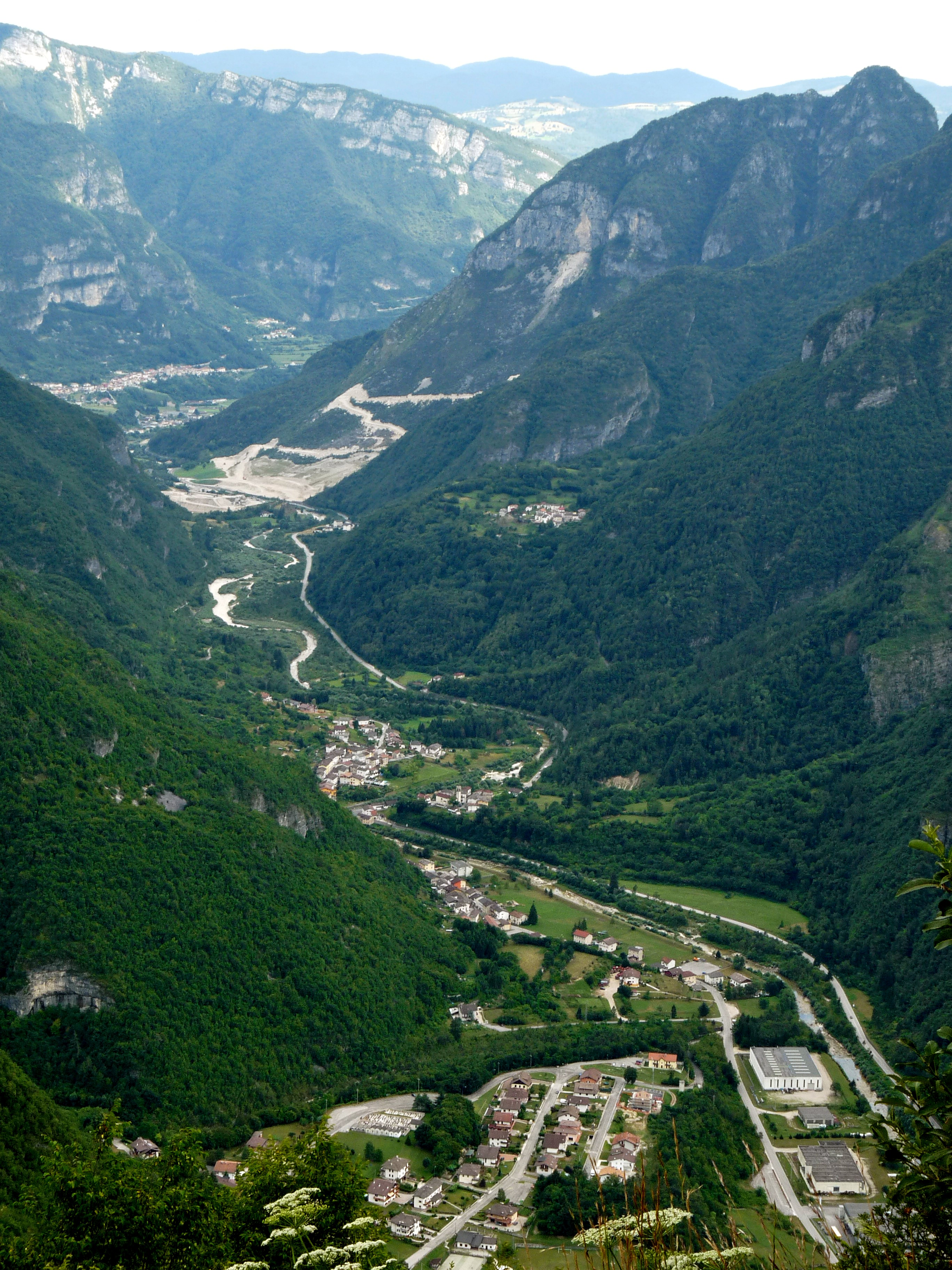 Pedemonte (Italy): view from Forte Belvedere (Werk Gschwendt).